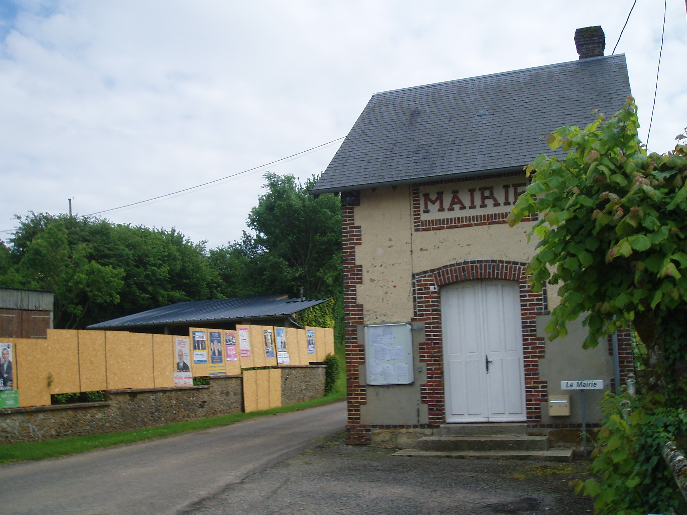 Town hall of Brullemail (France).